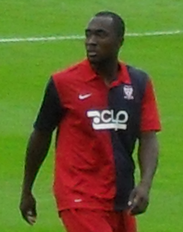 Richard Pacquette